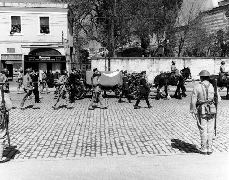 Funeral procession for the late Mehmet Münir Ertegün, Turkish Ambassador to the United States, passes through Istanbul, 5 April 1946.